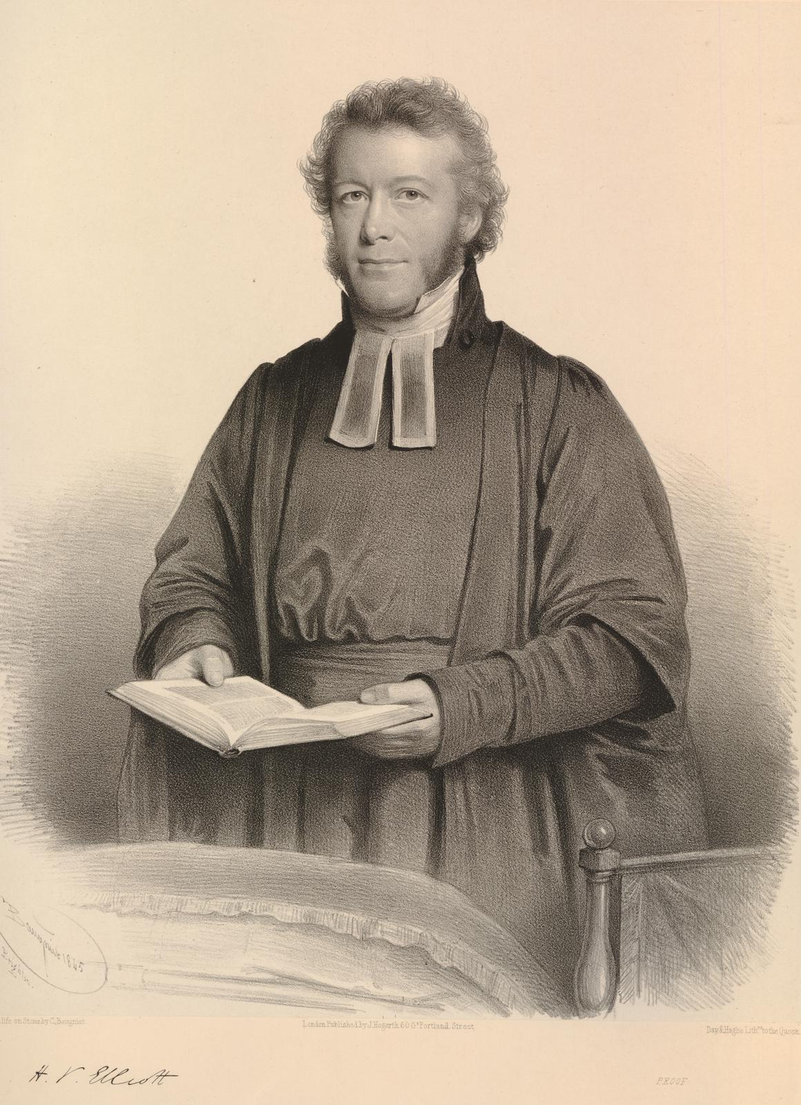 Portrait of Henry Venn Elliott, three-quarter-length, slightly turned to the left, preaching from the pulpit with a book held open in his hands, dressed in an academic gown with bands at his neck, a facsimile of his signature below, proof Lithograph